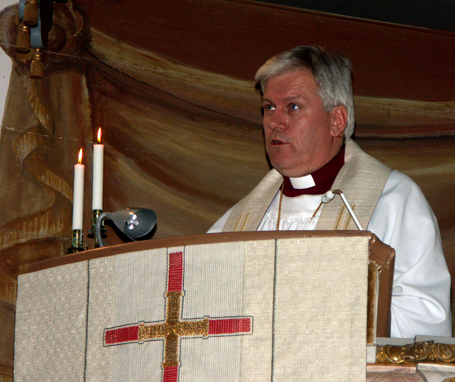 Bishop Hans Stiglund of Church of Sweden diocese of Luleå preaching in the Lycksele Church.